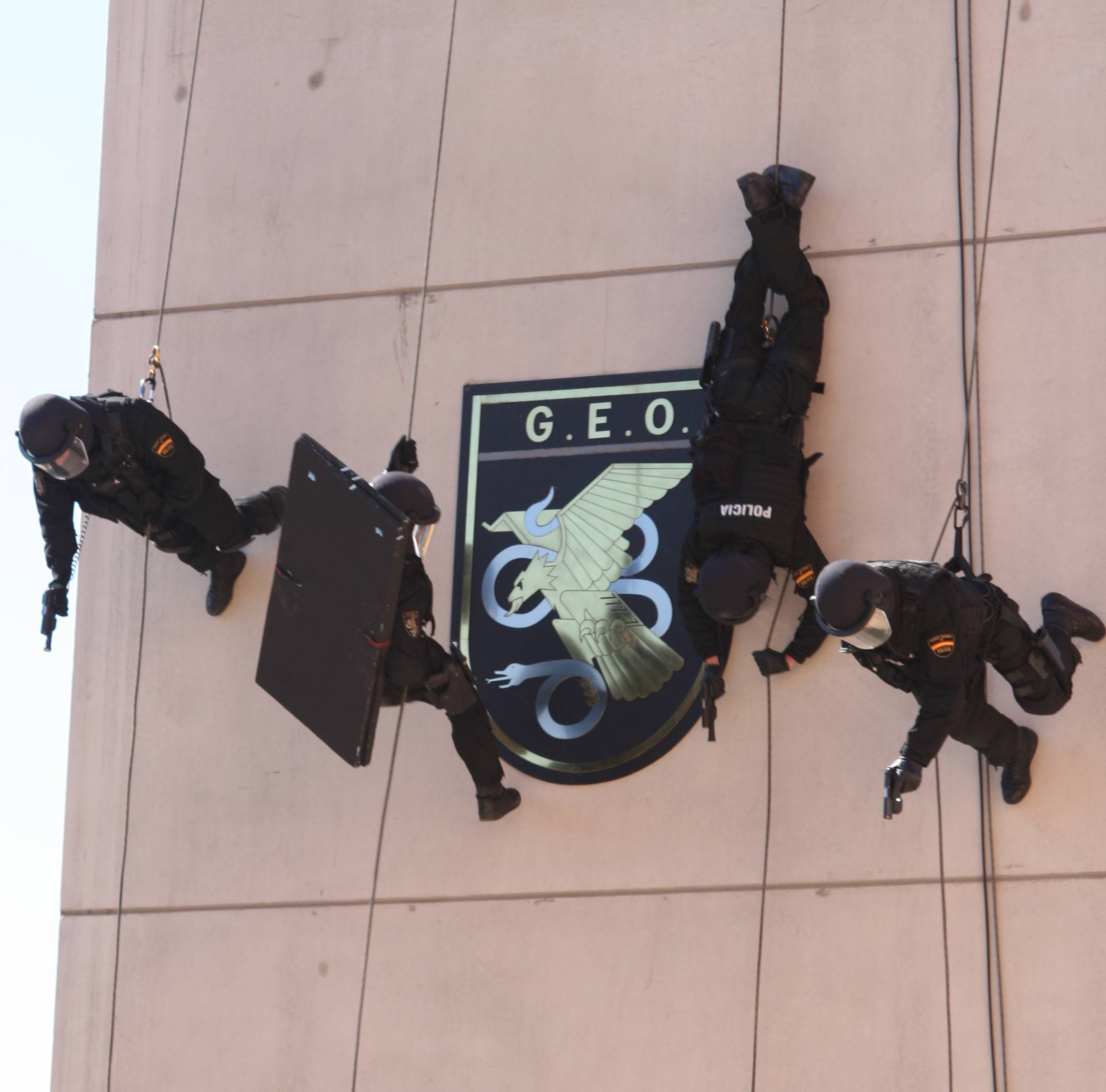 The Special Group of Operations in action, and behind them their badge.